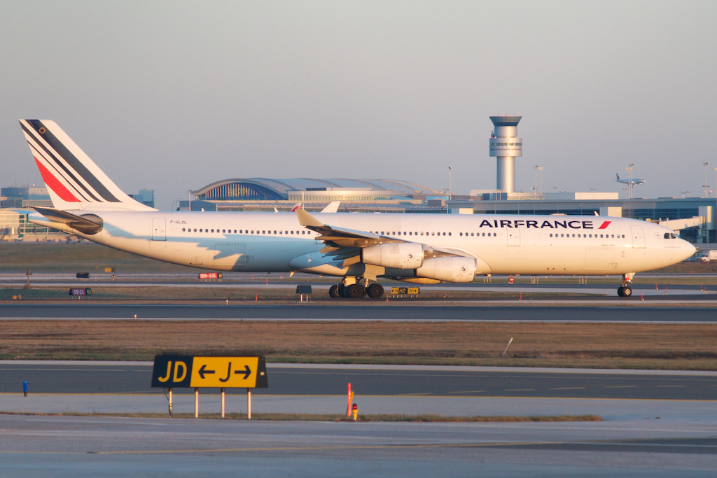 Air France A340-300